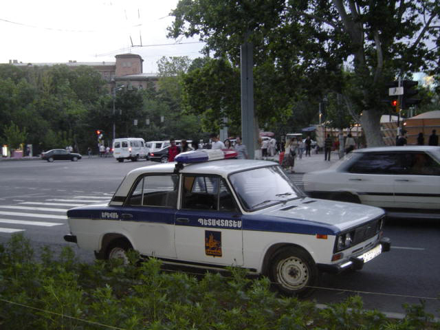 An Armenian police vehicle, or militsiya, in Yerevan. The call numbers on the side of the vehicle have been deliberately removed by me. Photo taken by Marshal Bagramyan.